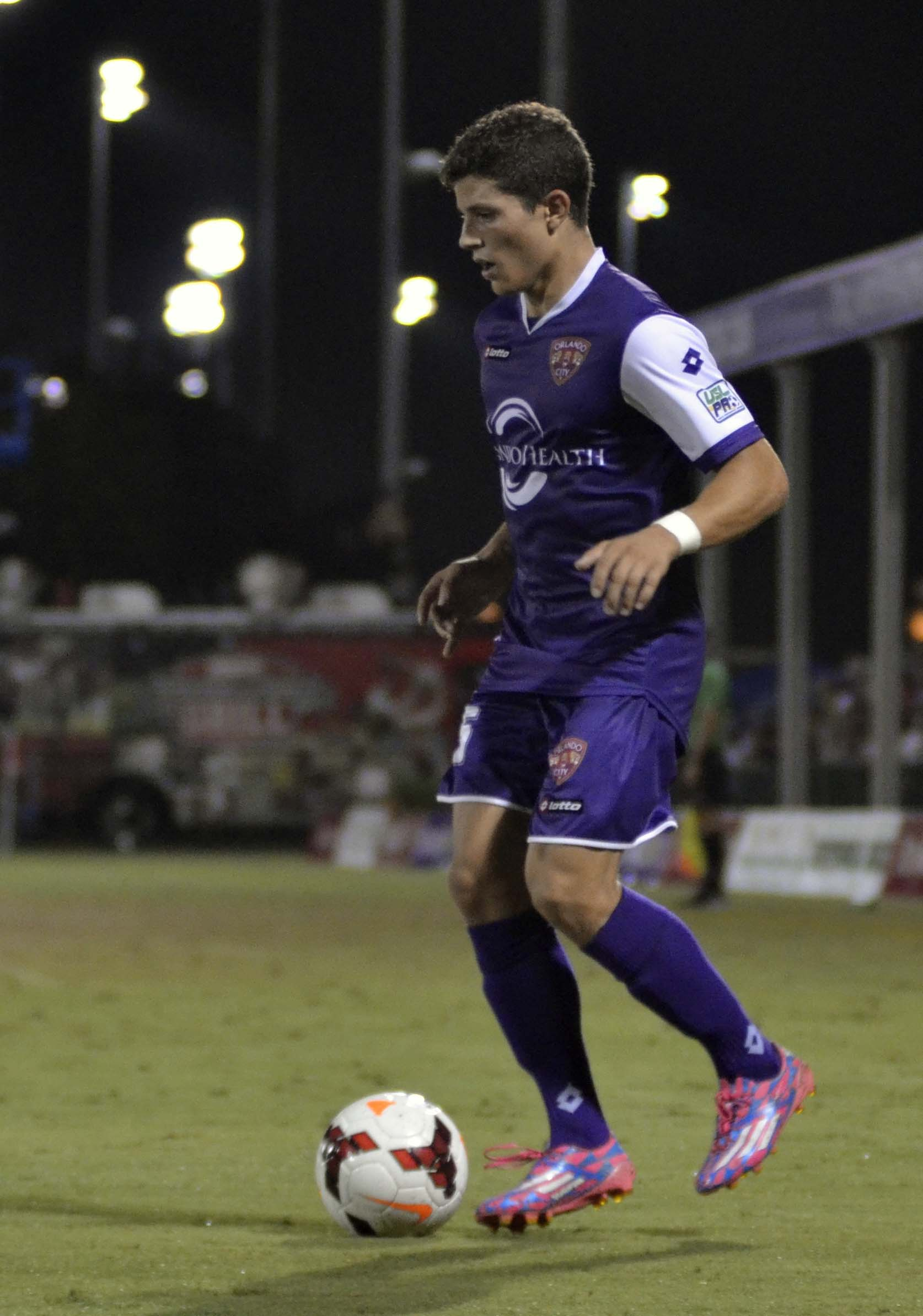 Rafael Ramos playing for Orlando City SC on 8/31/14 against Dayton